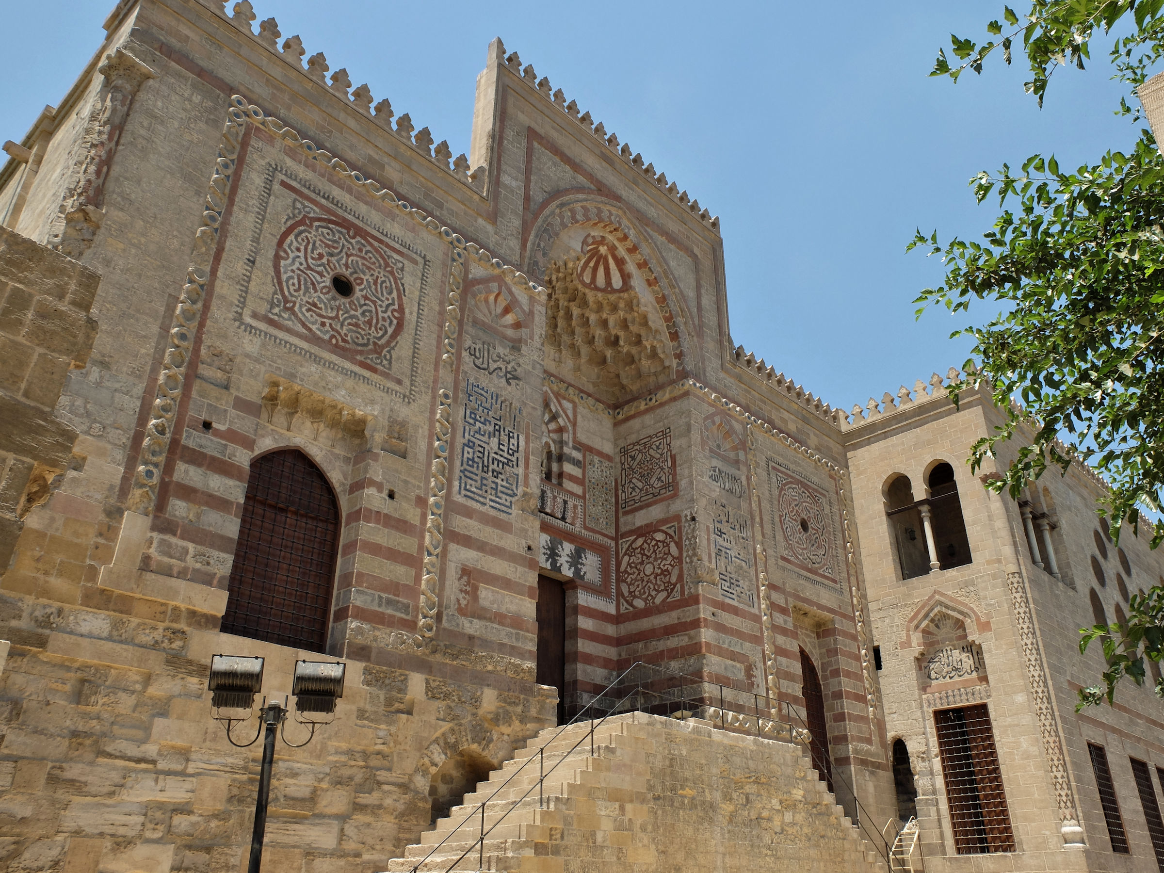 The monumental facade of Maristan of Sultan al-Mu'ayyad Sheikh (after recent restoration).